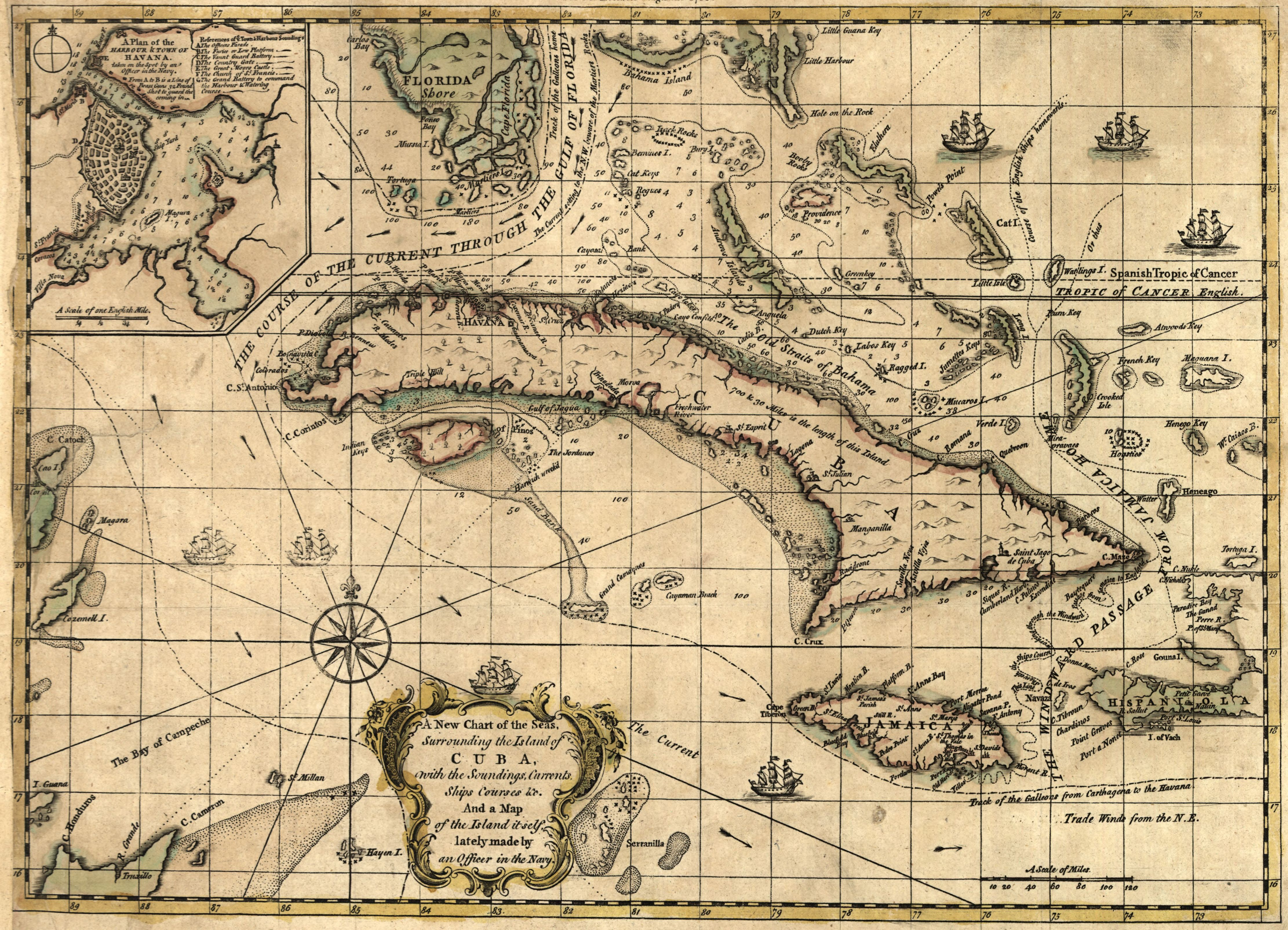 Relief shown pictorially. Depths shown by soundings. From The London magazine, or, Gentleman's monthly intelligencer. Oct. 1762, v. 21. In upper margin: For the London magazine 1762. LC Maps of North America, 1750-1789, 1779 Available also through the Library of Congress Web site as a raster image. Includes indexed inset of "A plan of the harbour & town of Havana" and ill. Vault